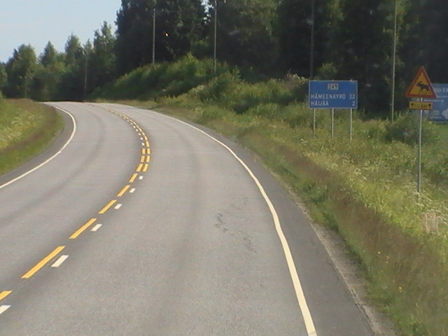 Finnish regional road 249 at Karkku, Sastamala. The road runs from Keikyä to Hämeenkyrö and It has mainly good condition.